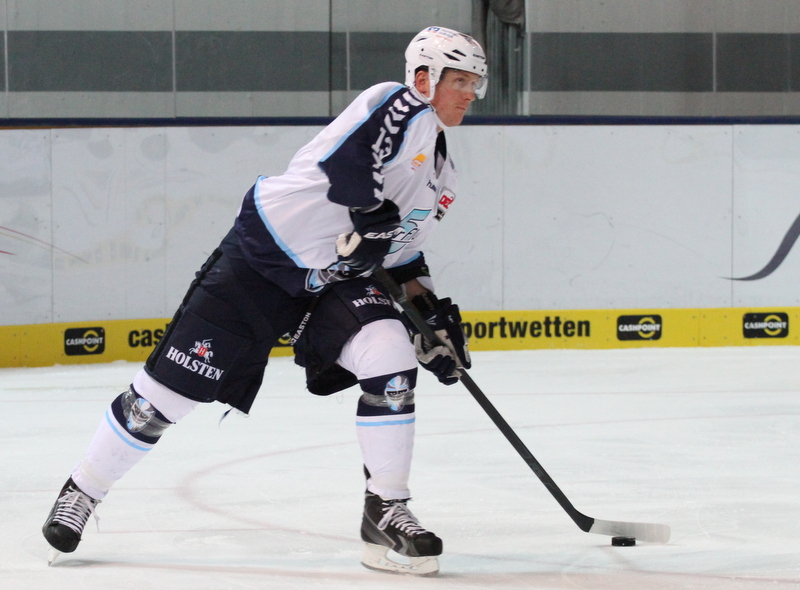 Christoph Schubert am Puck.